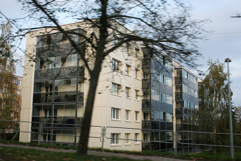 A renovated 1960s appartment house in Žirmūnai, Vilnius